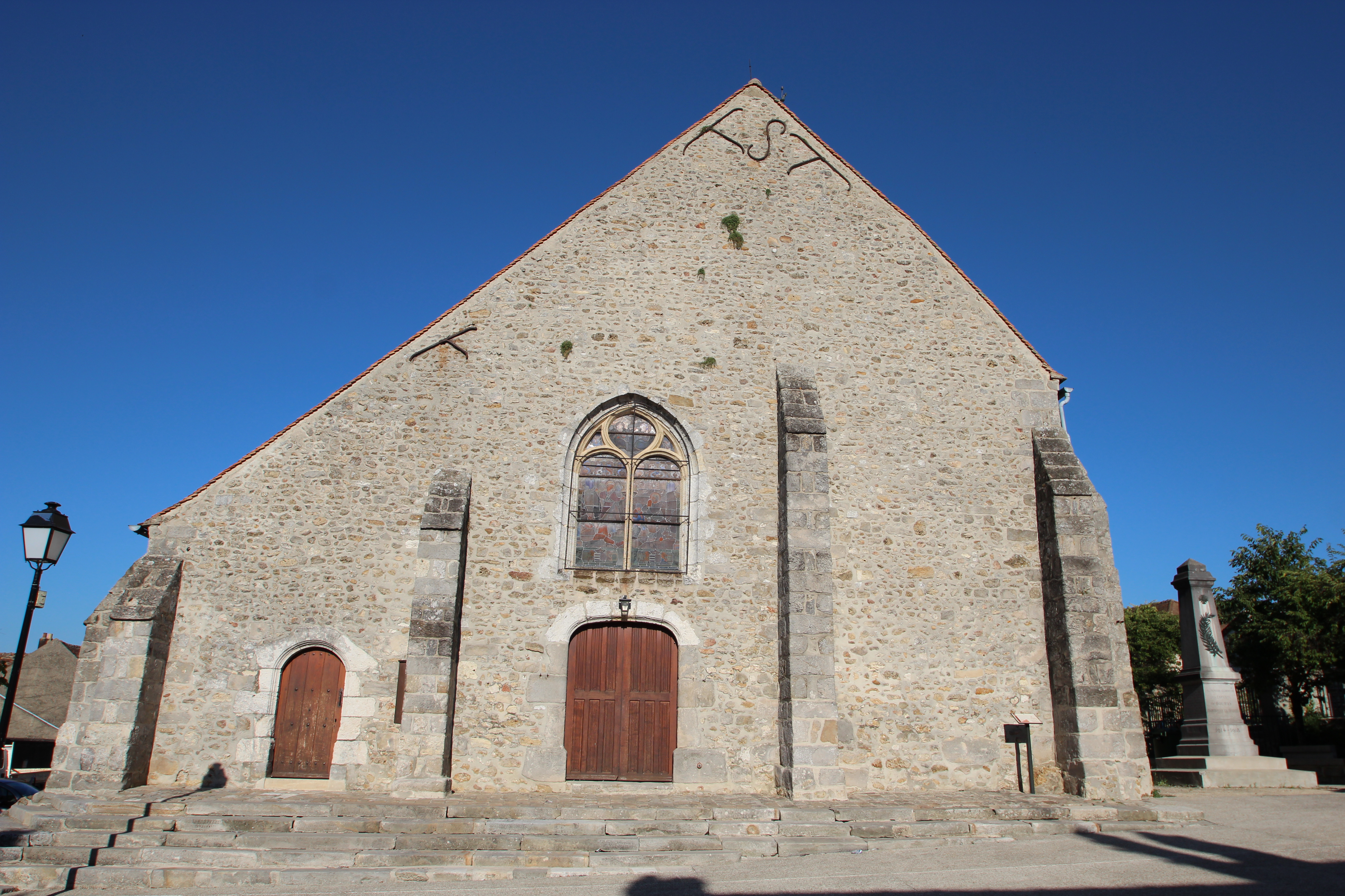 Saint-Pierre-ès-Liens church of Bouray-sur-Juine, France.